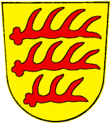 Coat of arms of the counts of Veringen (died out in 1415)